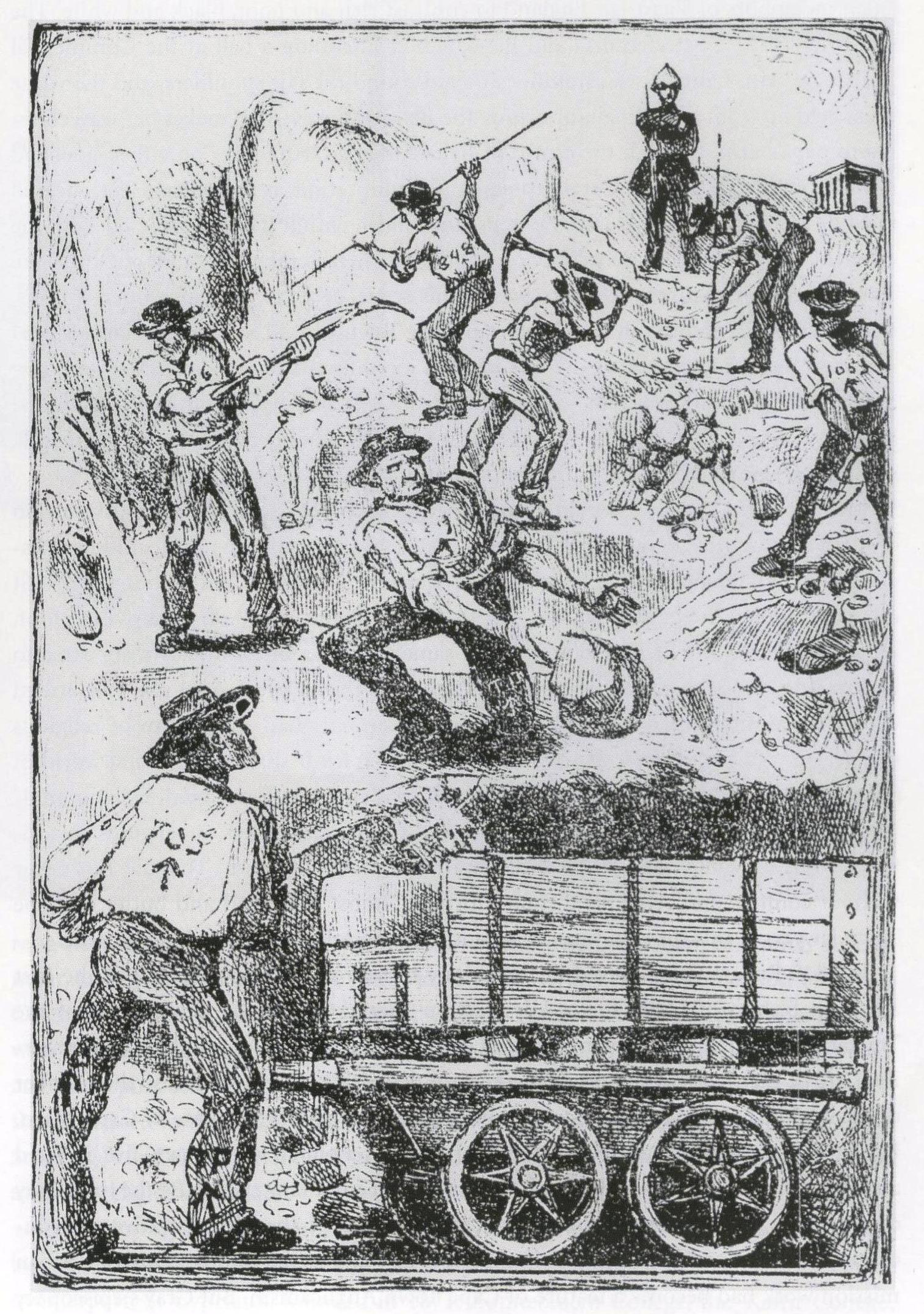 Drawing of convict laborers building the breakwater of Cape Town harbor. McCrombie. Cape Colony.